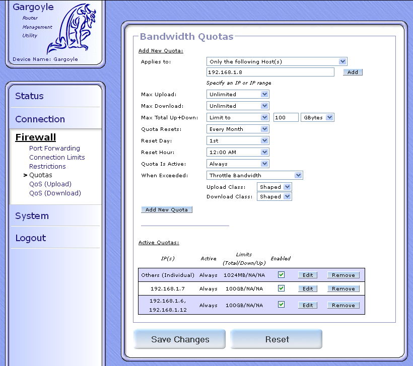 Quotas configuration screen on the Gargoyle Router Firmware (version 1.5.4)